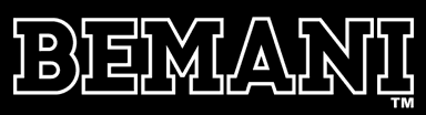 The logo of Konami's Bemani series